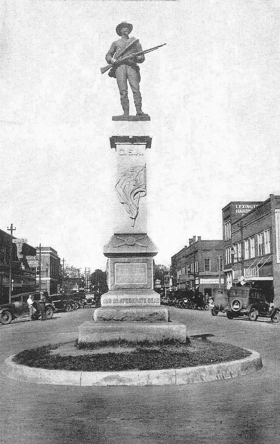 From PhC.184 Massengill Postcard Collection, initial donation, State Archives of North Carolina, Raleigh, NC. Inscription: Front: ERECTED BY / THE ROBERT E. LEE CHAPTER / OF THE / DAUGHTERS OF THE CONFEDERACY / NO. 324 / SEPT. 14, 1905. / OUR CONFEDERATE DEAD Rear: SLEEP SWEETLY IN YOUR HUMBLE GRAVES / SLEEP MARTYRS OF A FALLEN CAUSE. / FOR LO A MARBLE COLUMN GRAVES. / THE PILGRIM HERE TO PAUSE. / 1861-65.